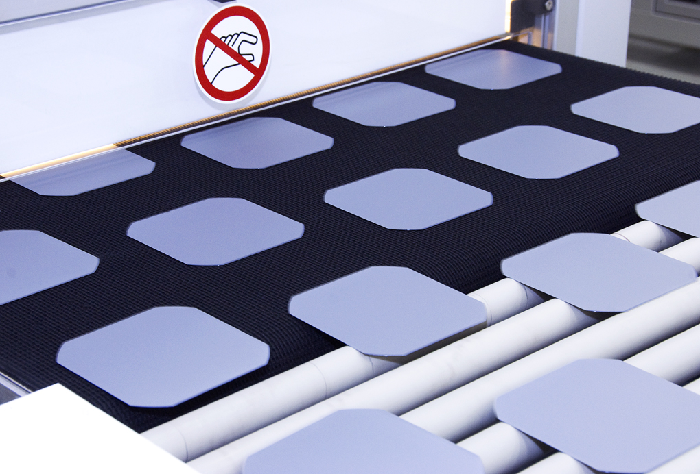 Wafers on the conveyor